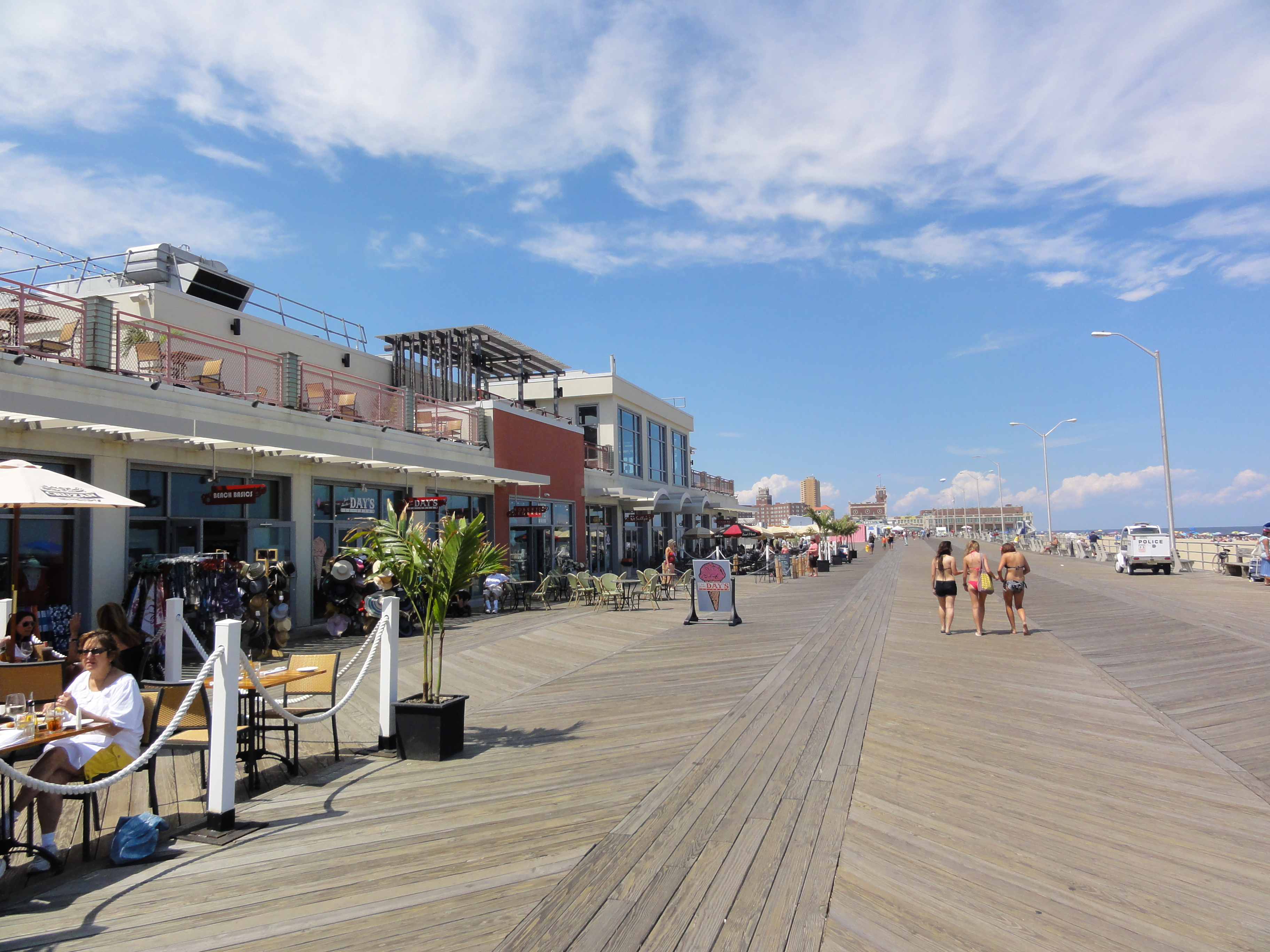 Asbury Park bordwalk